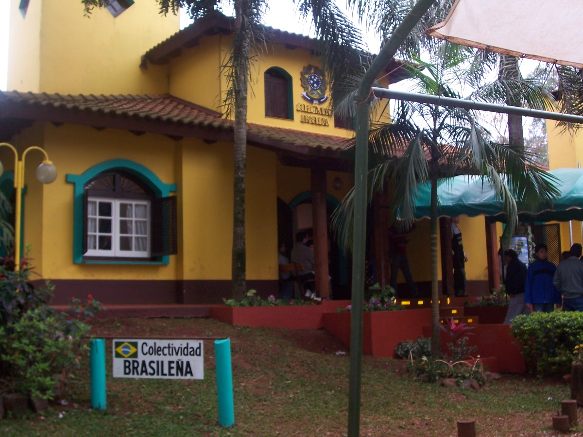 Picture of the Brazilian House, in the Park of the Nations, within the framework of XXVI the National Immigrant's Festival, in Oberá, Misiones, Argentina.